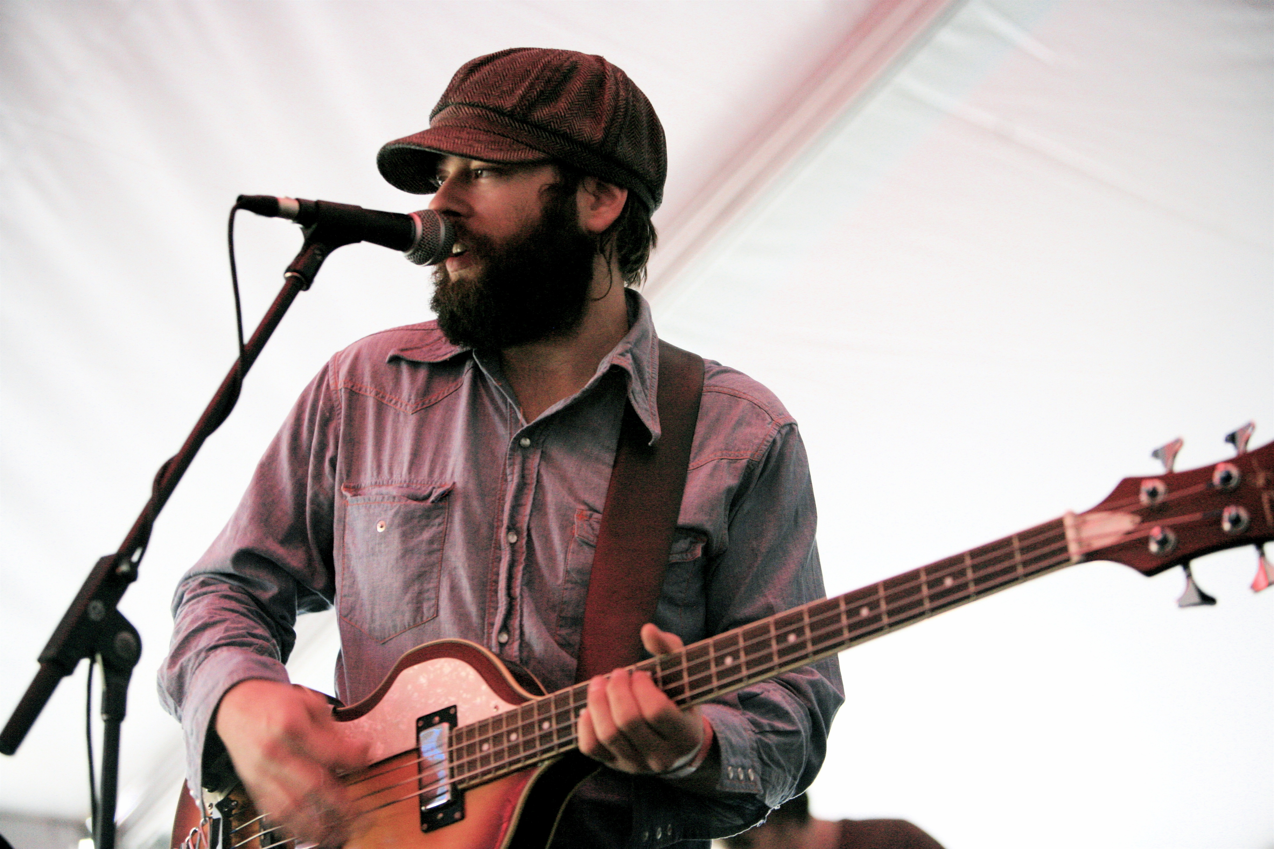 Alex Maas, The Black Angels, SxSW 2007